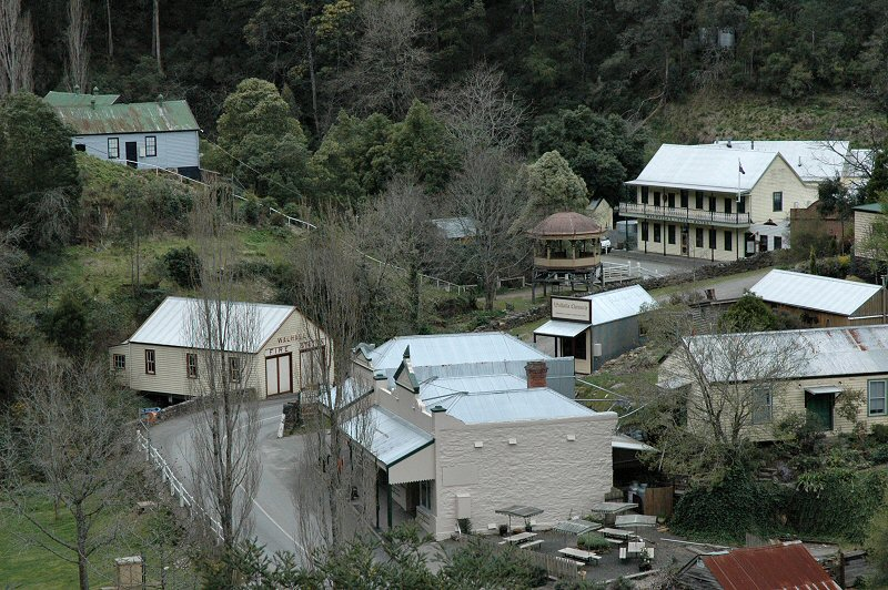 View of part Walhalla, showing mainly original buildings - including the fire station built over the creek - as well as some reconstructed ones